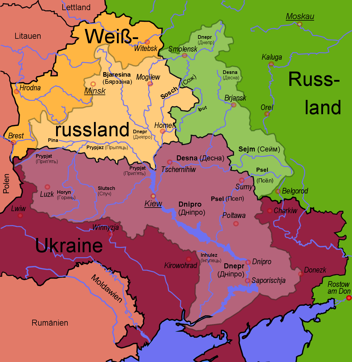 German map of the Dnepr River Basin